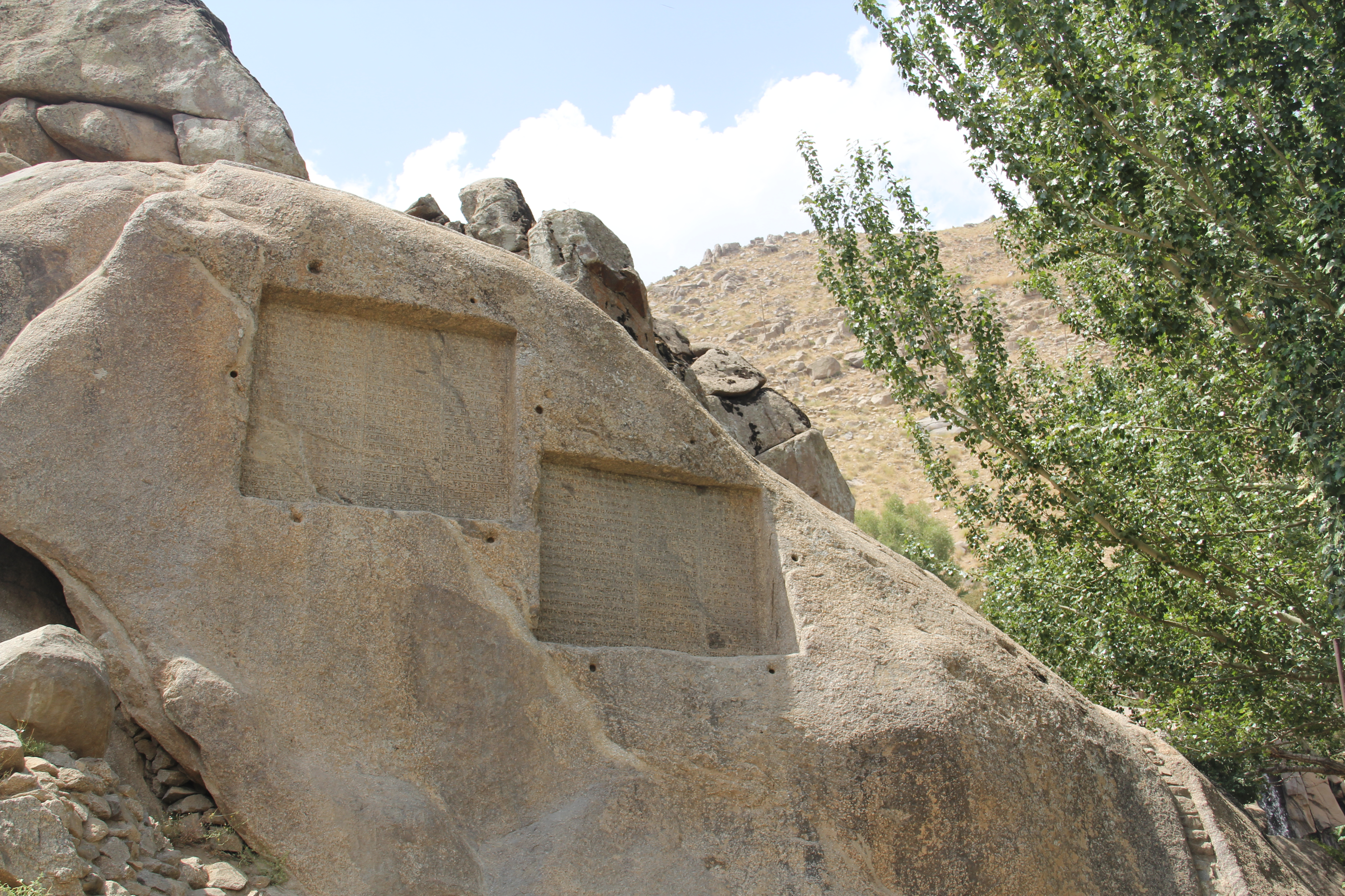 Ganj Nameh inscriptions